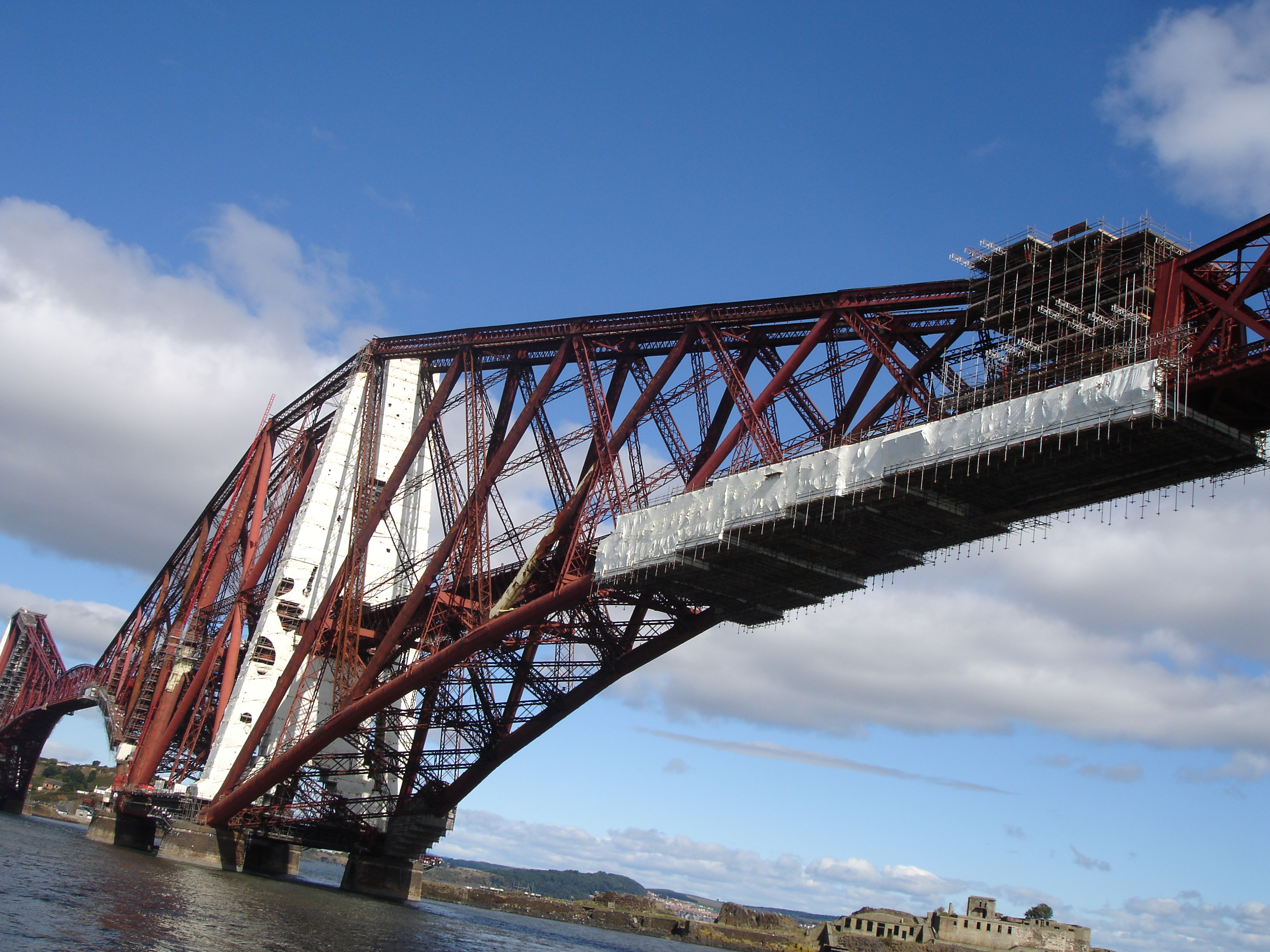 Forth bridge